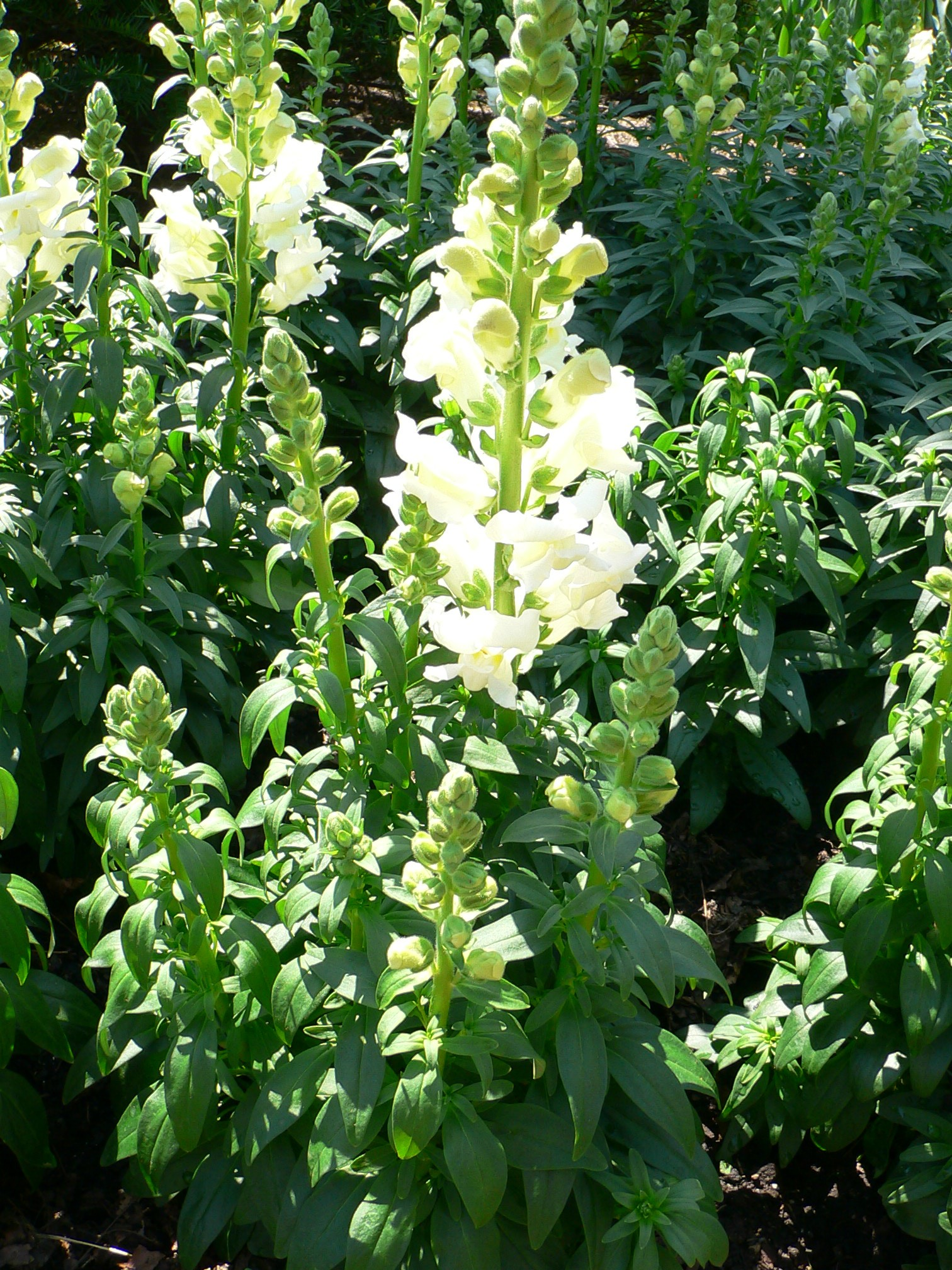 Pictures taken by myself at Longwood Gardens